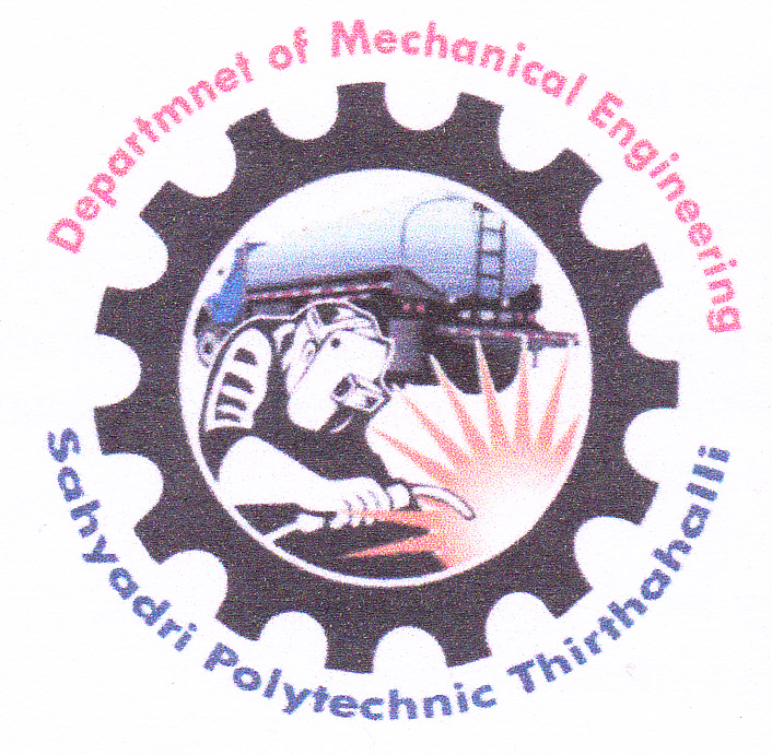 The one right spark in Mechanical Engineer create anything for the world.